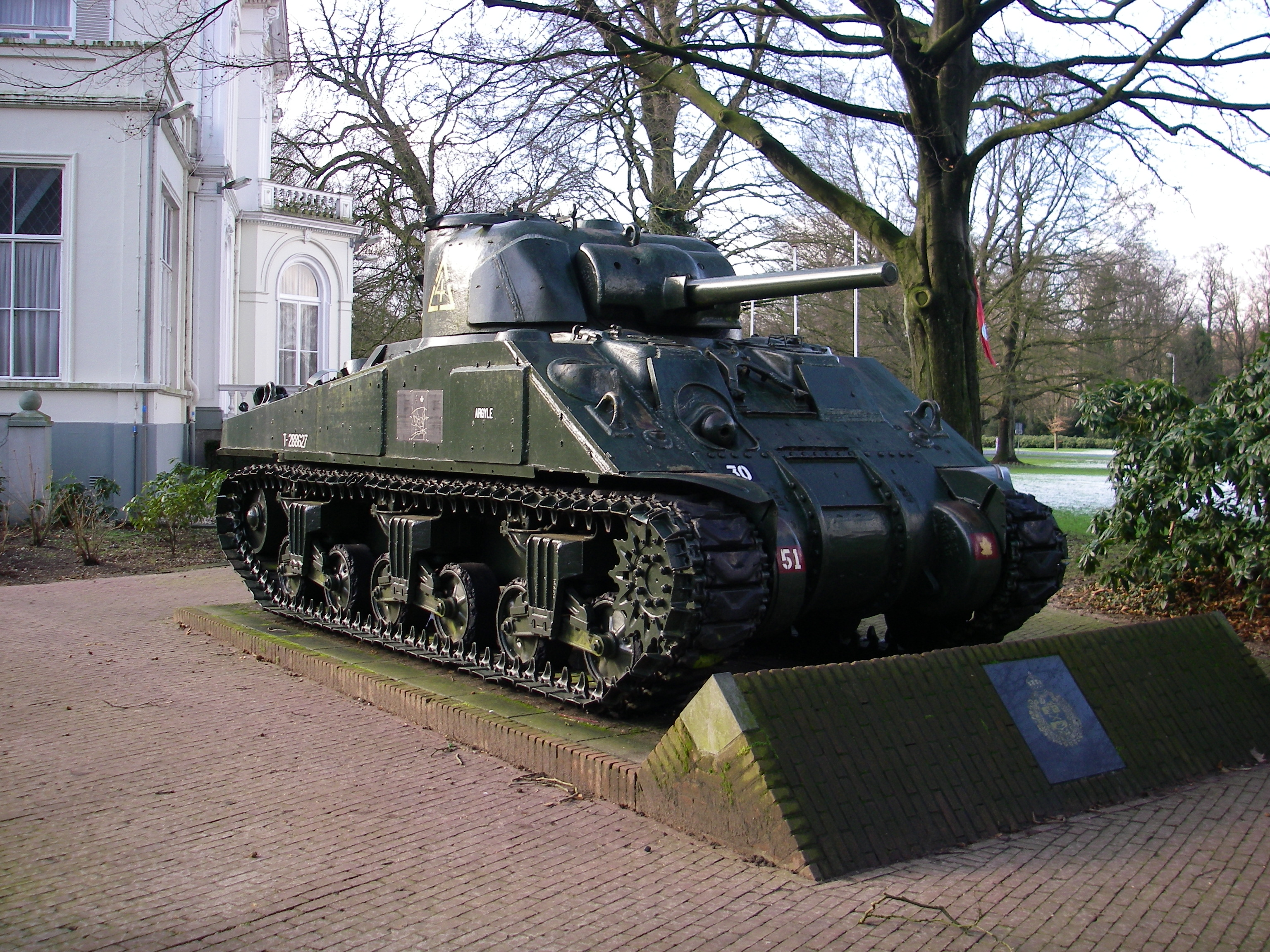 Sherman tank in front of Airborne Museum Hartenstein in Oosterbeek